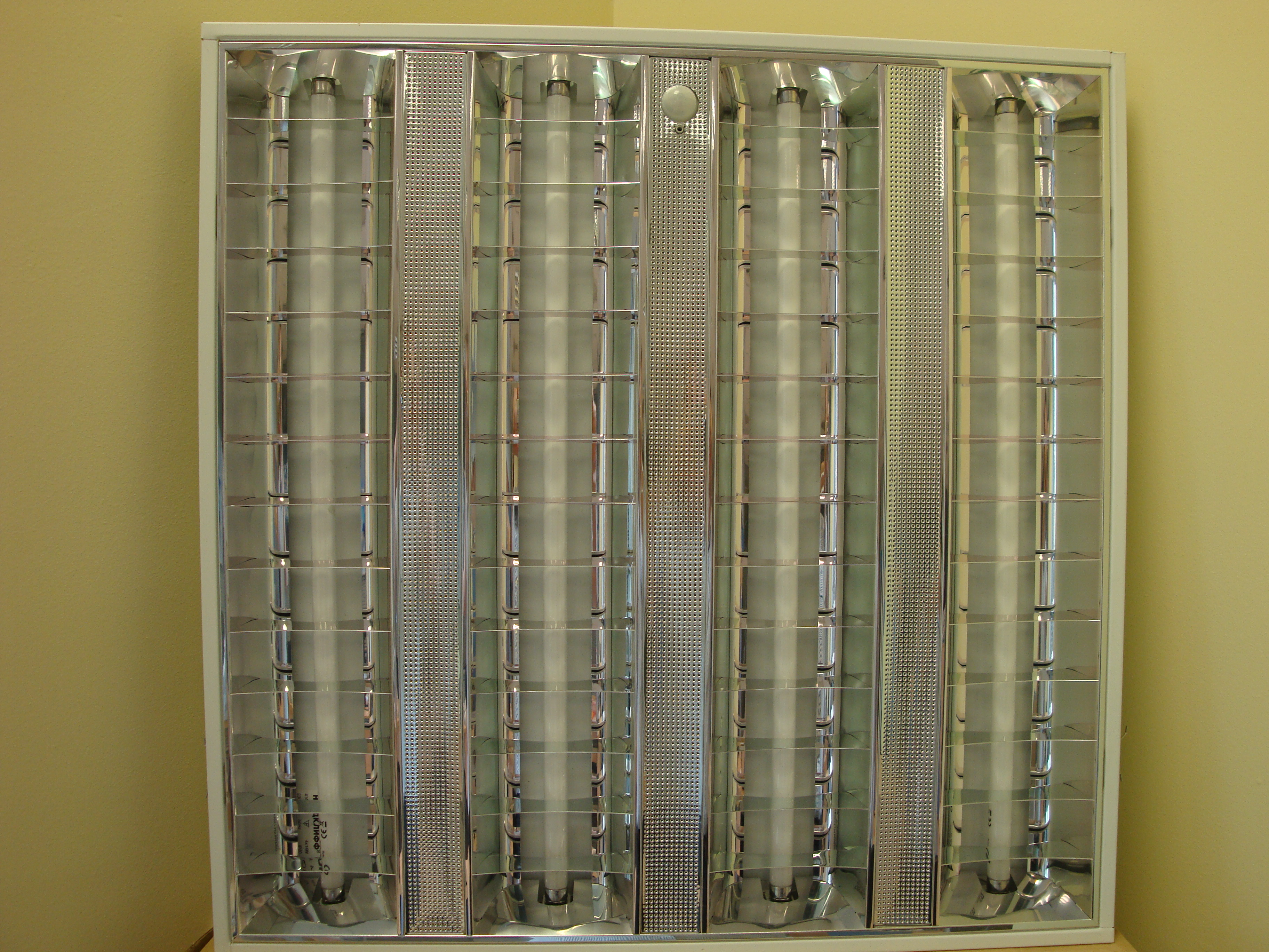 4x18W controllable fitting with DALI ballast and Minisensor2, which has daylight sensor and presence detector for maximise energysavings and possibility to have remote control through infrared reciever